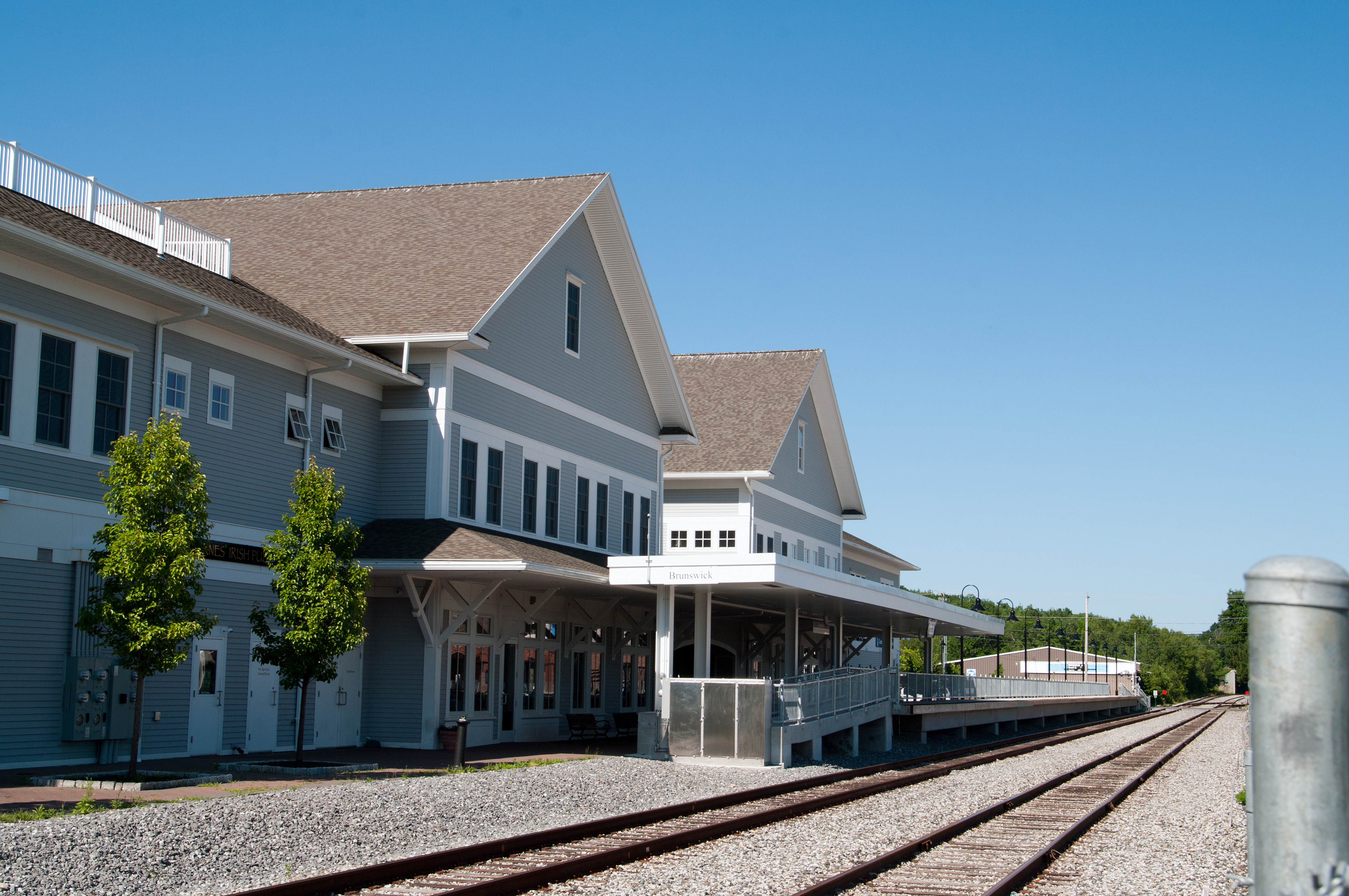 Brunswick Maine Street station in July 2012